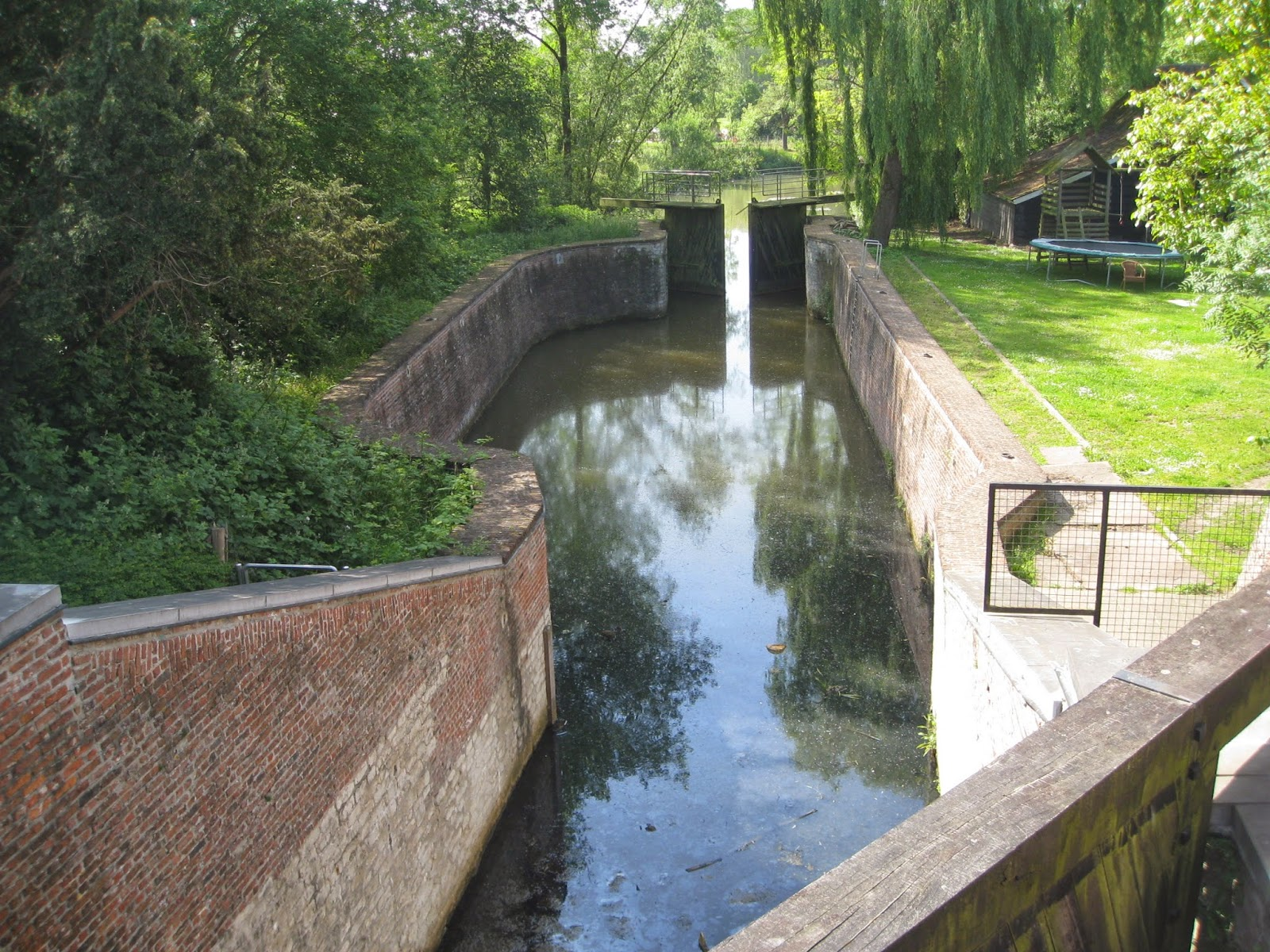 The Sas (lock between the Schelde and Oude Schelde) in Bornem